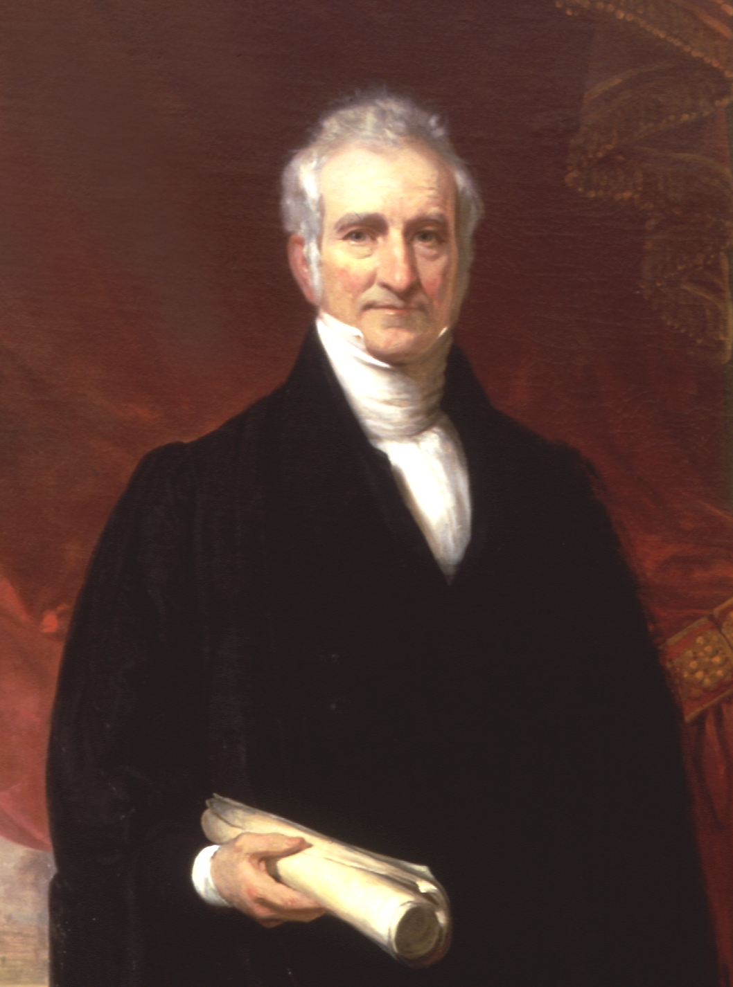 Eliphalet Nott, oil on canvas, 96 by 60 inches (240 cm × 150 cm); this is a cropped version of the larger painting, which now hangs in the Nott Memorial on Union's campus.